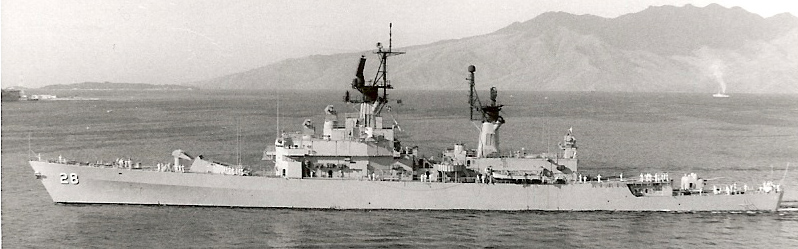 The U.S. Navy guided missile cruiser USS Wainwright (DLG-28) underway during the ship's 3rd Vietnam War deployment to the Western Pacific in late 1970 and early 1971.